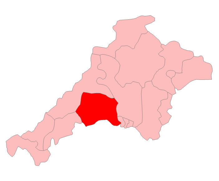 A map showing the Bodmin constituency (1918-1945 boundaries), in Cornwall and Devon.